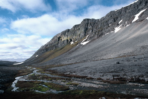 Ymerdalen at southern Bjoernoya, Antarcticfjellet to the right, July 2002, by Michael Haferkamp